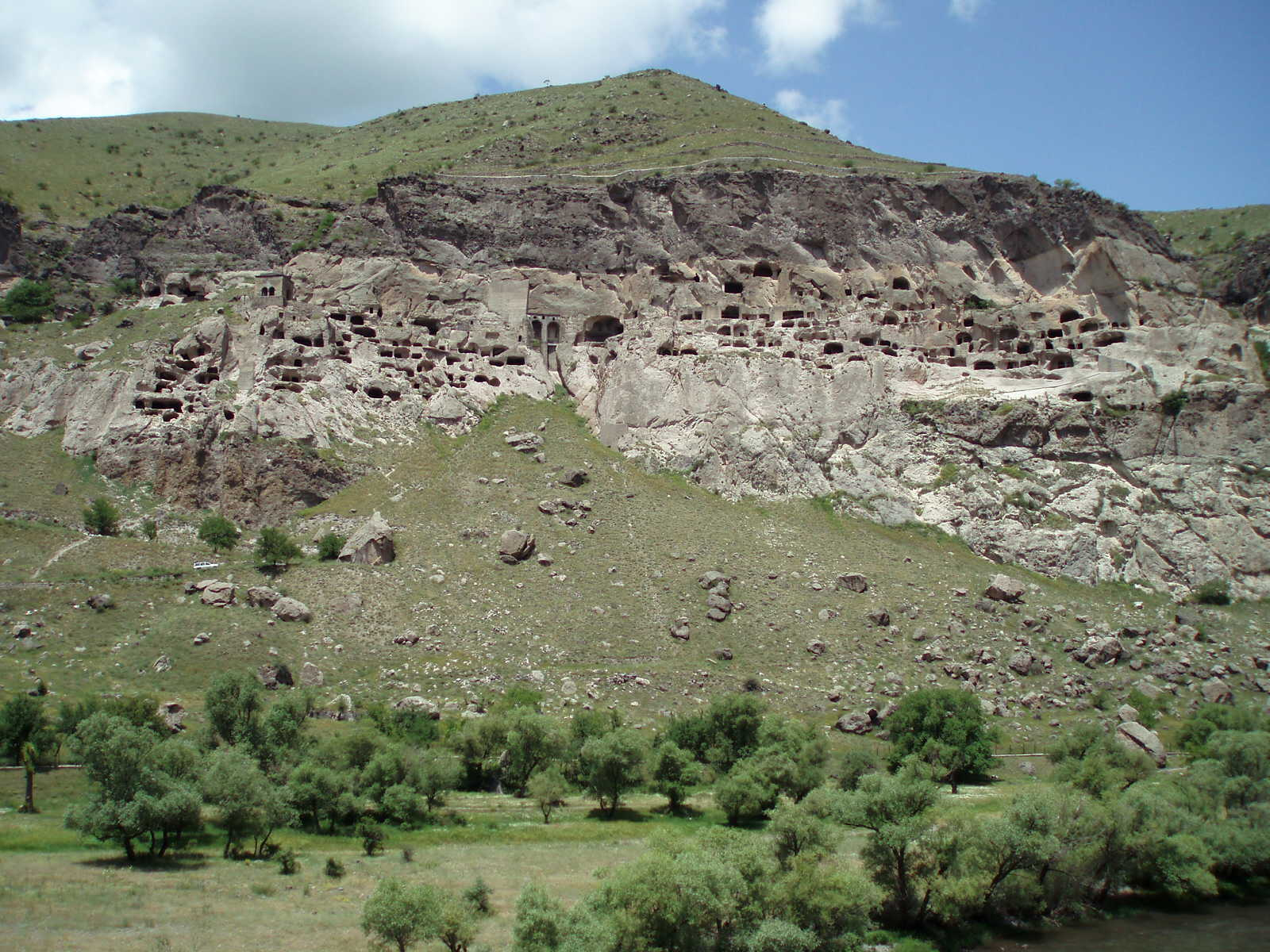 Vardzia